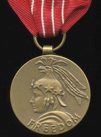 Photograph of the Medal of Freedom, established in 1945 and awarded 1946–1961